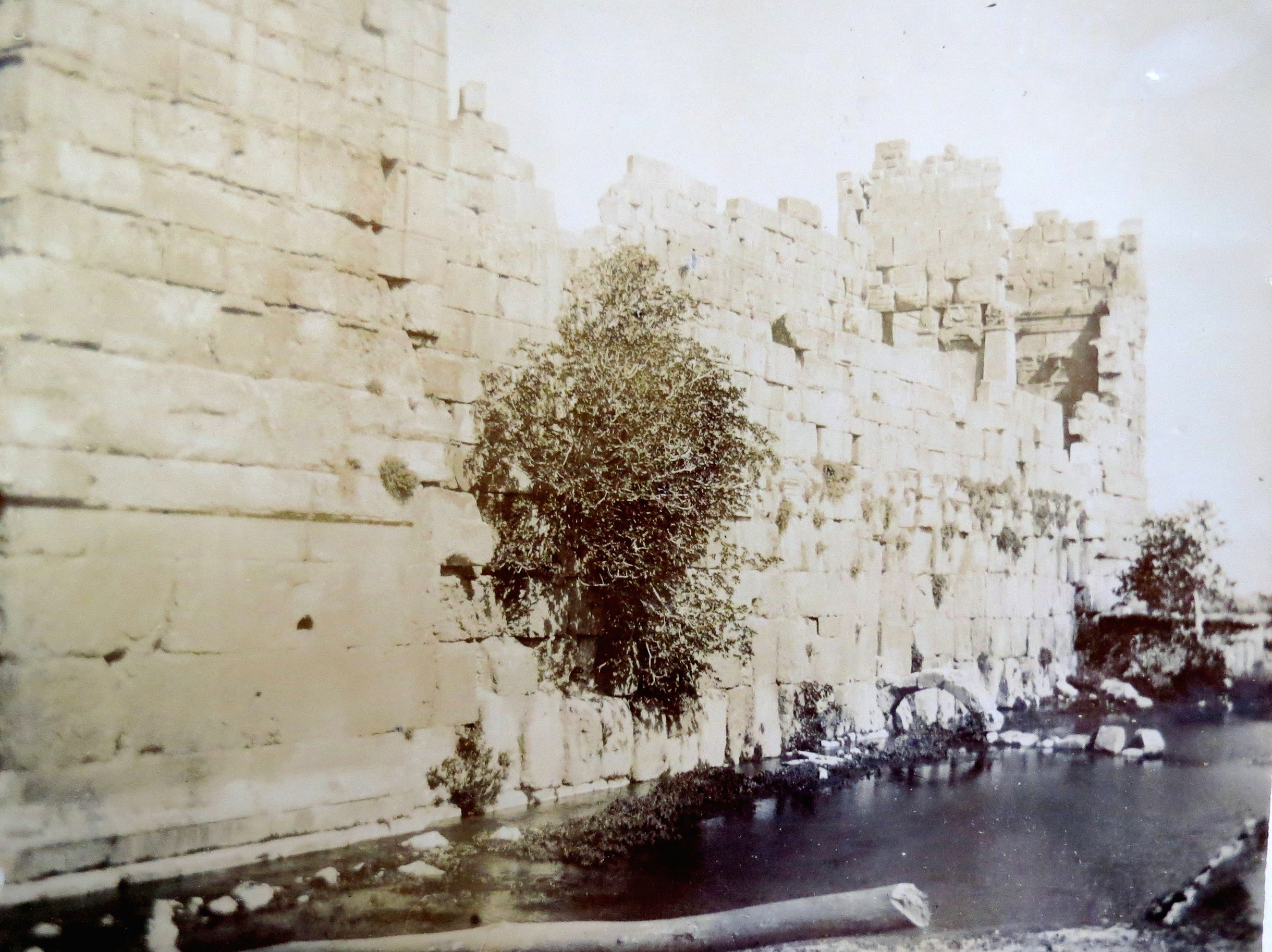 Great Stones, Baalbek, 1891. From original silver print in book titled: "A Month in Palestine and Syria, April 1891," (author unknown). Original 19th century book in the possession of Kimberly Blaker, New Boston Fine and Rare Books.